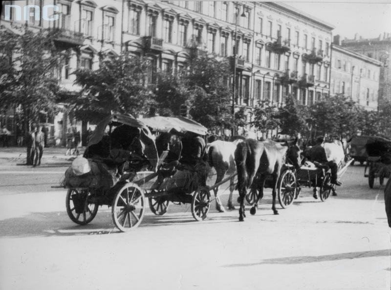 Day before WarsawUprising: Remnants of German unit retreats west through Warsaw. Visible in the back townhouses at Aleje Jerozolimskie Street 7,9,11 and 13.